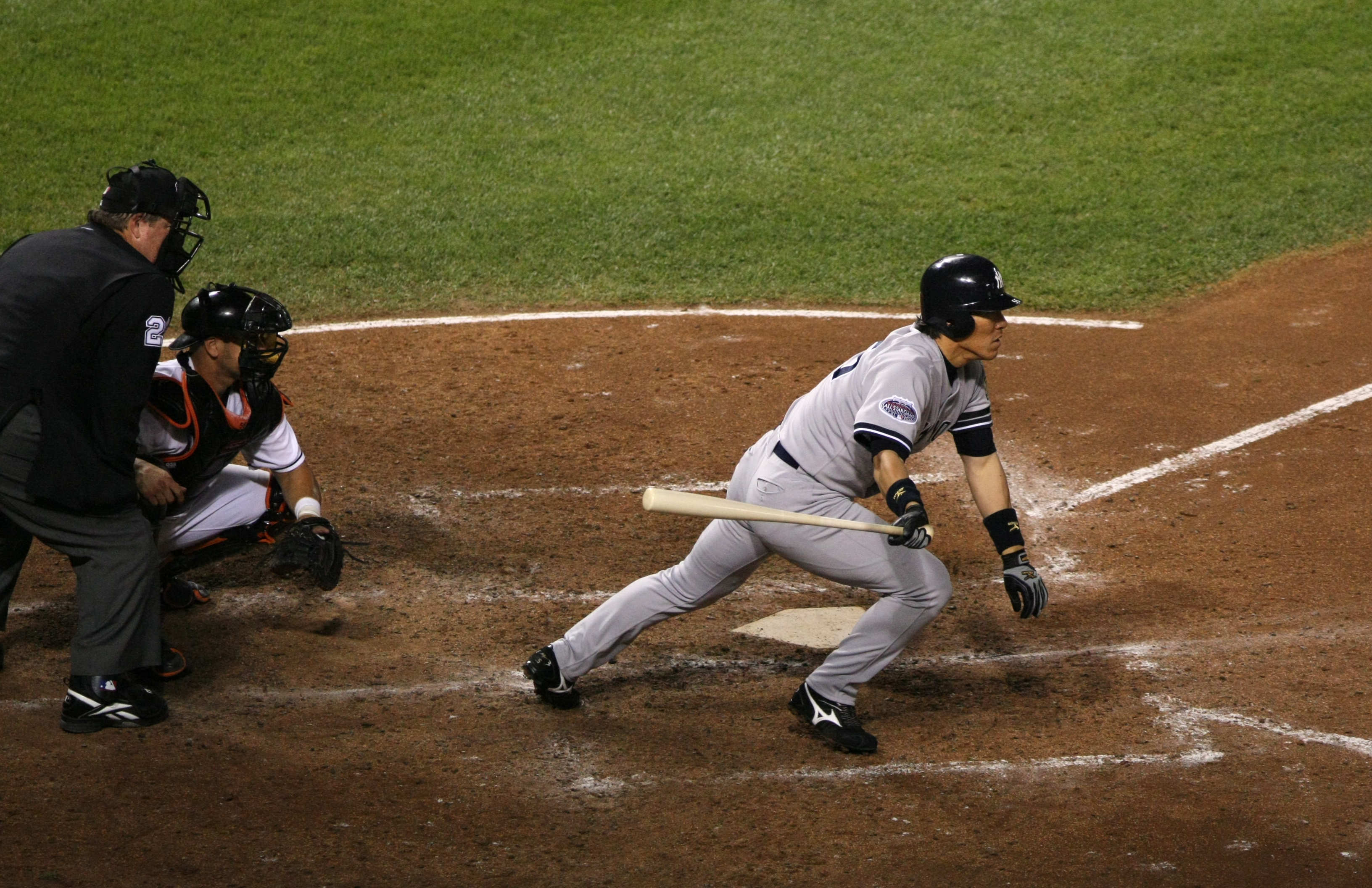 Hideki Matsui Reprint from Flickr